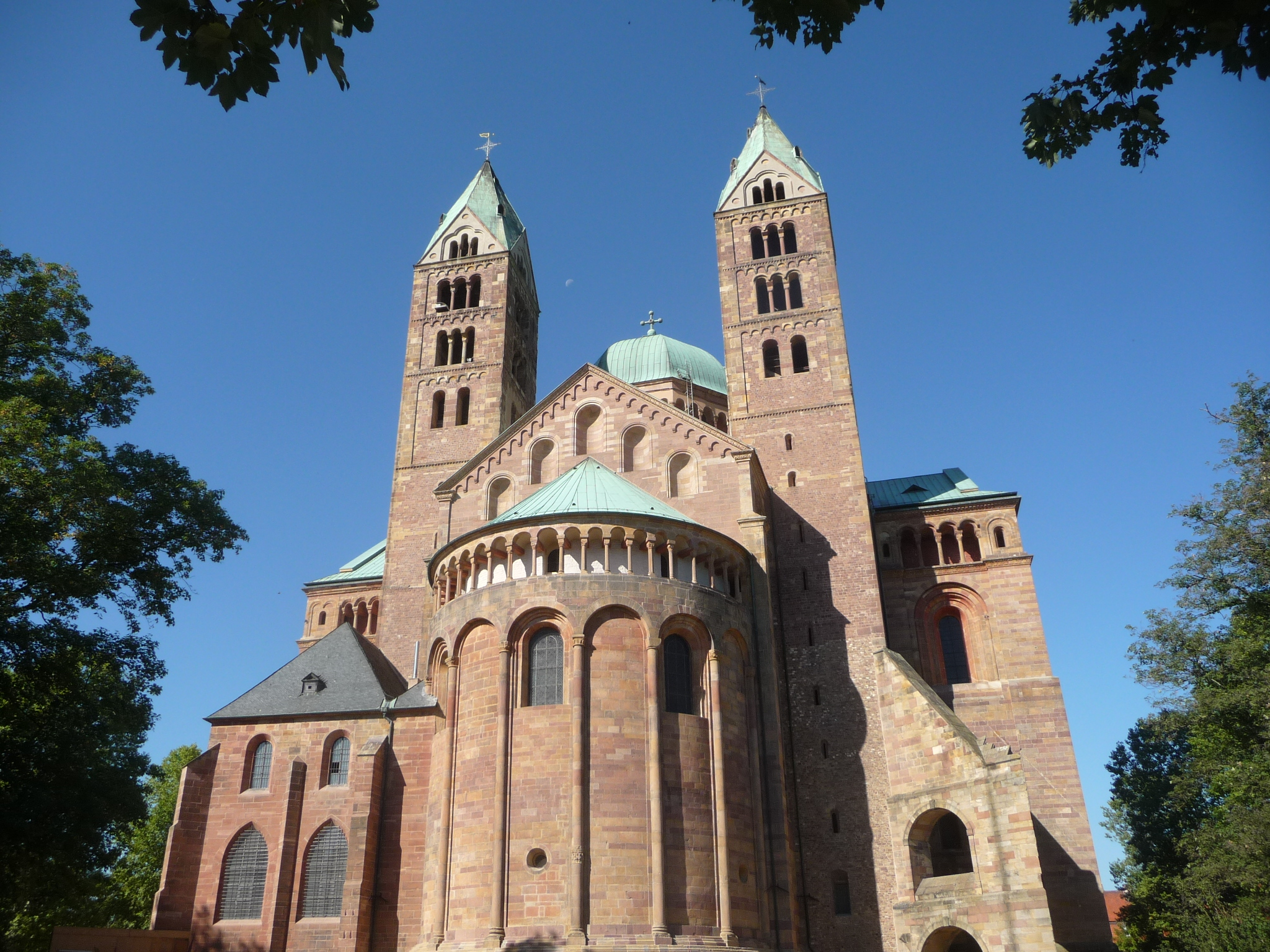 East front of Speyer Cathedral, Germany